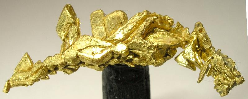 Gold Locality: Stope 1462, Parmour Hill, Timmins, Ontario, Canada Size: thumbnail, 2.4 x 1 x .3 cm Gold The Saber Tooth. Wonderful gold specimen with well-formed individual crystals and at least one spinel twin crystal. With such great luster and sharp crystals, this is a killer from any locale - from Canada, its amazing 2.4 x 1 x .3 cm